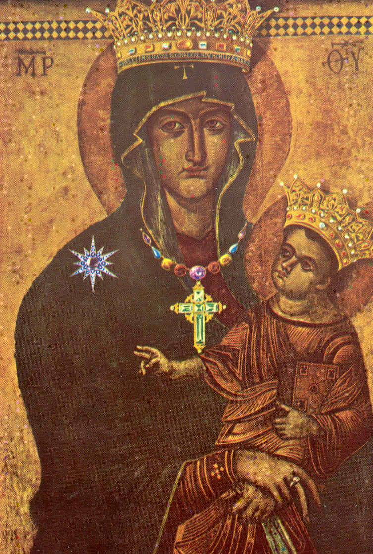 This is a rare photo of the Salus Populi Romani, crowned by Pius XII in 1953. After the renovation, the crown was deleted and is now in the museum of the sacristy of Saint Peter. The picture today in Rome exists therefore only without the crown.